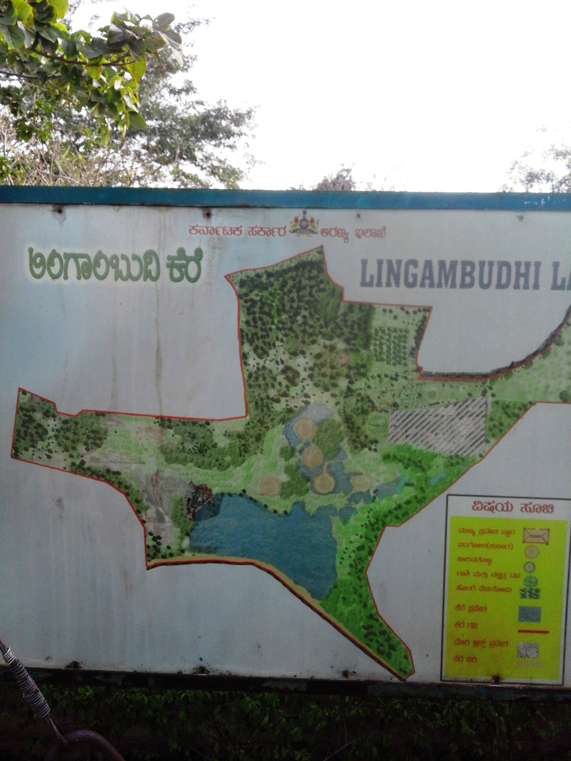 Mysore south, Karnataka state India.